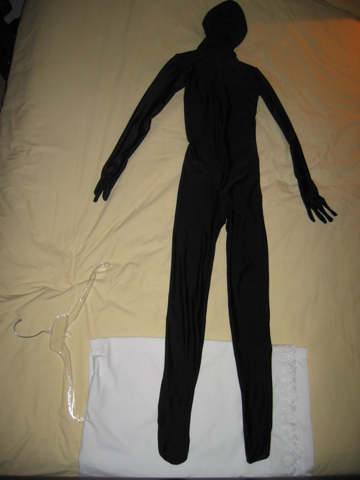 Black Zentai Suit on hanger.